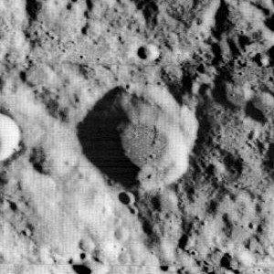 Slightly oblique view of Stein, on the far side of the moon. North at top.